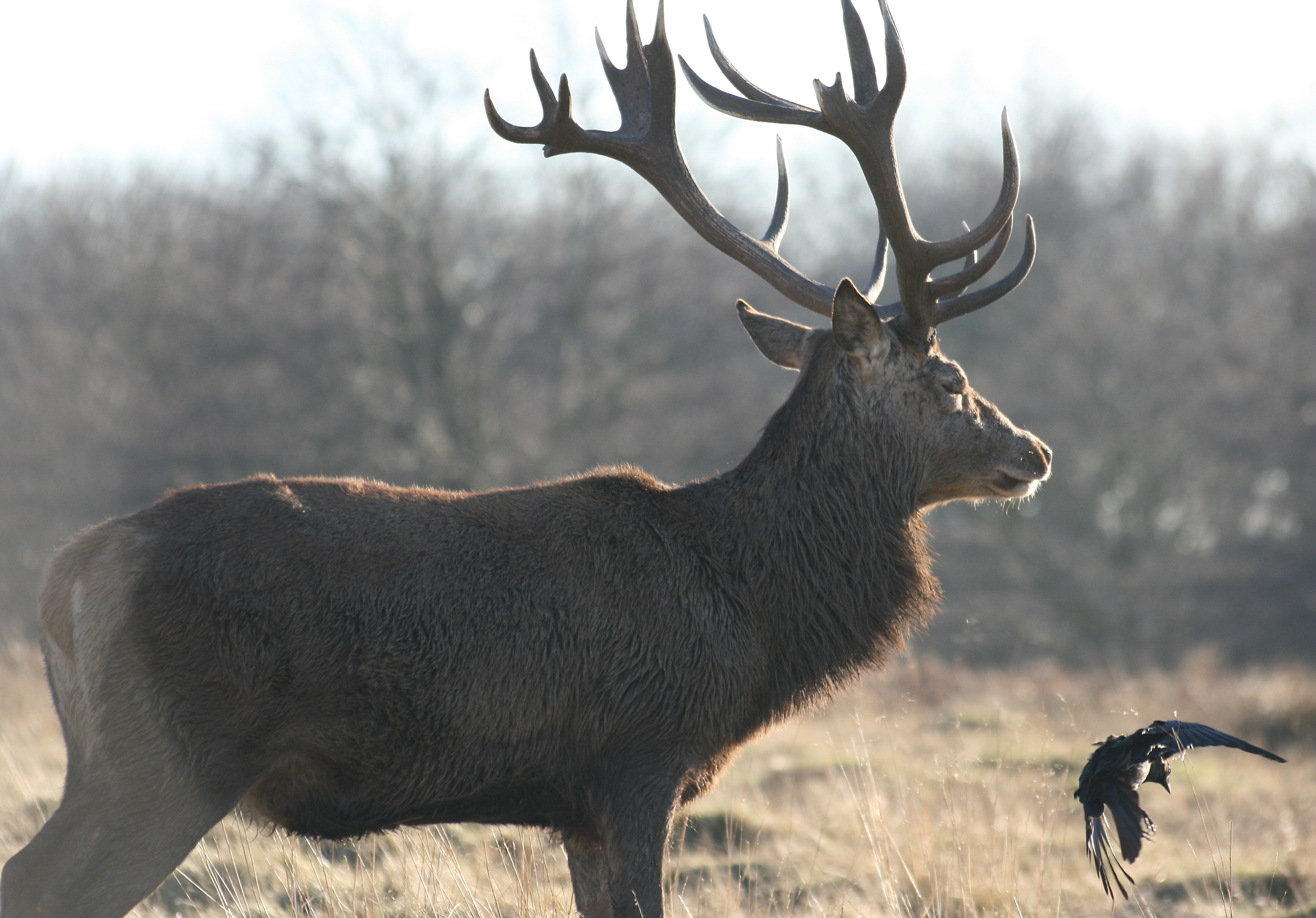 Deer - Richmond Park - London, England - Saturday 9th Feb 2008. I thought this only happened in Africa..lol...but apparently not..This rook decided to help this Stag out with a spot of bug cleaning...it's just a pity I didn't have a longer lens, this is as close as I could get without scaring them away..:O(